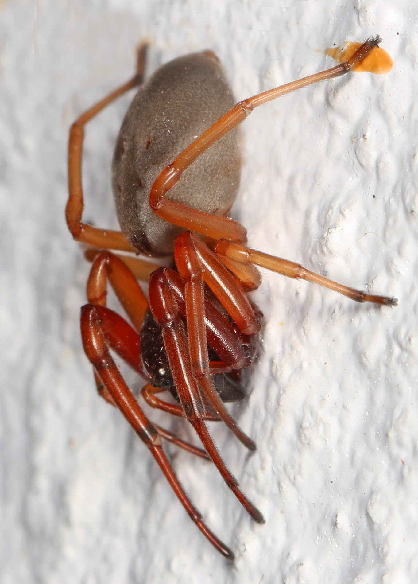 Sac Spider - Trachelas tranquillus, Woodbridge, Virginia